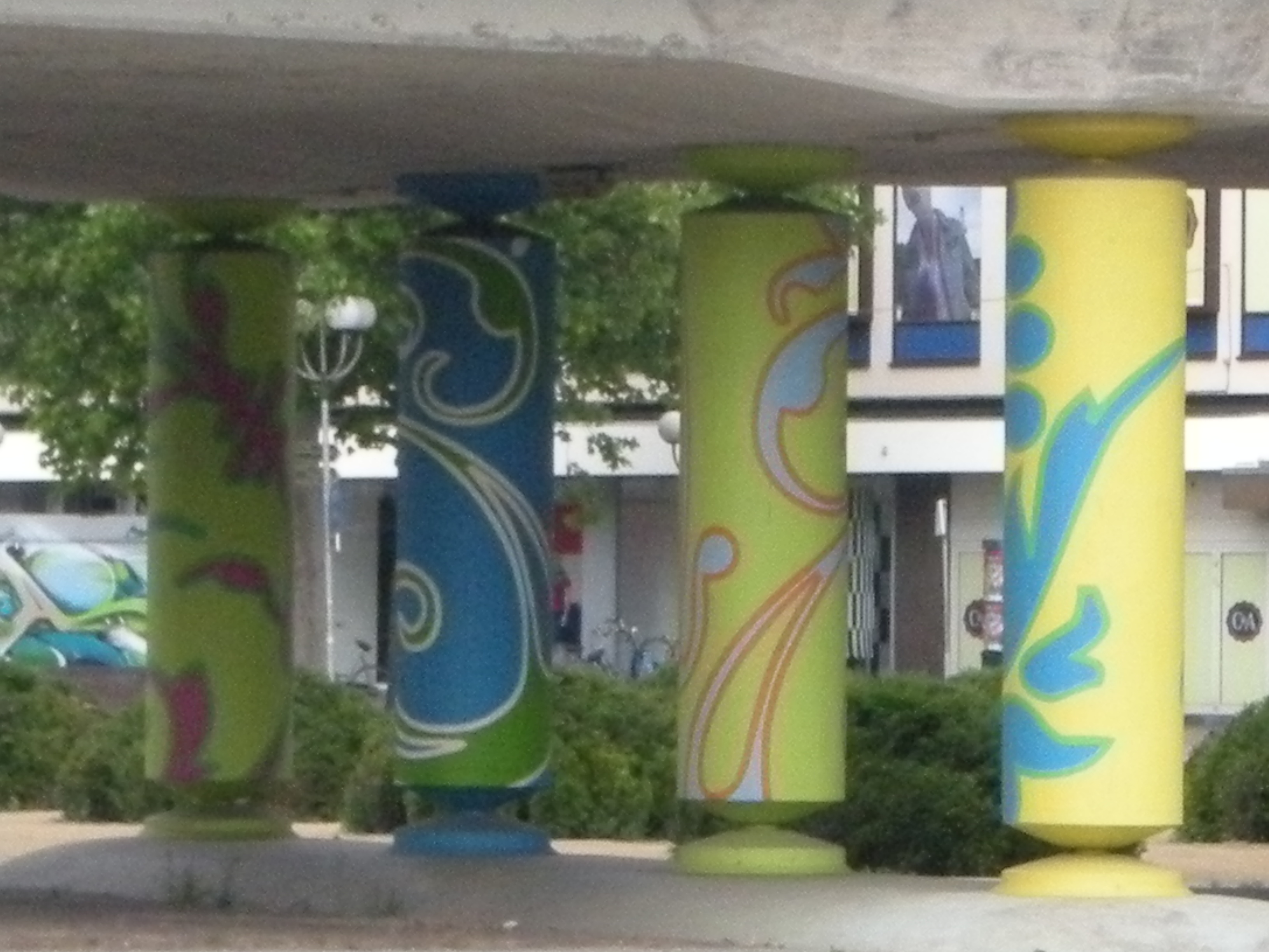 Pop Art at Roermondsepoort Venlo